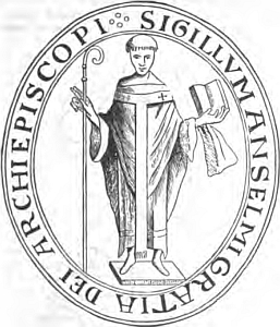 the seal of Anselm of Canterbury, from A. P. Stanely (13 December 1815 – 18 July 1881)'s Historical Memorials of Canterbury (1855).